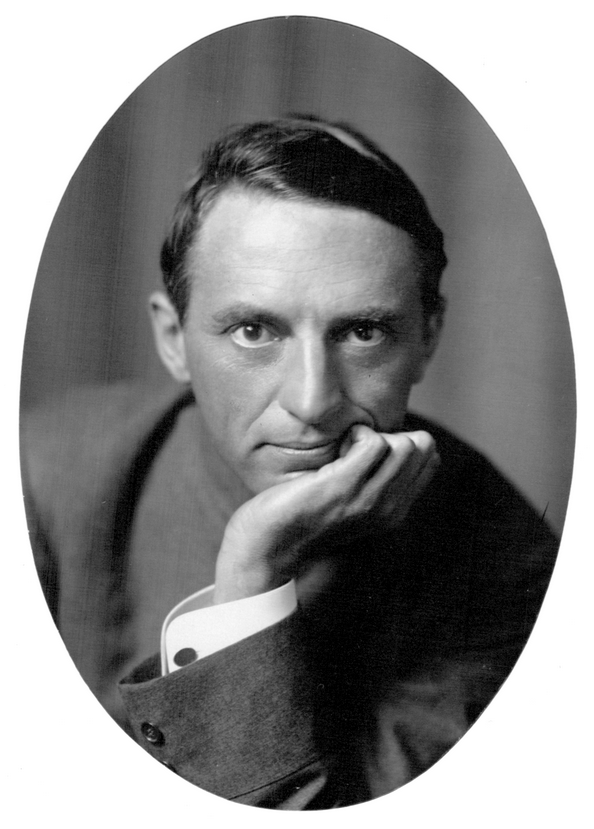 Photo of Kenneth Morris at Theosophical Society Headquarters, Point Loma, California, undated, but likely mid-1920s.